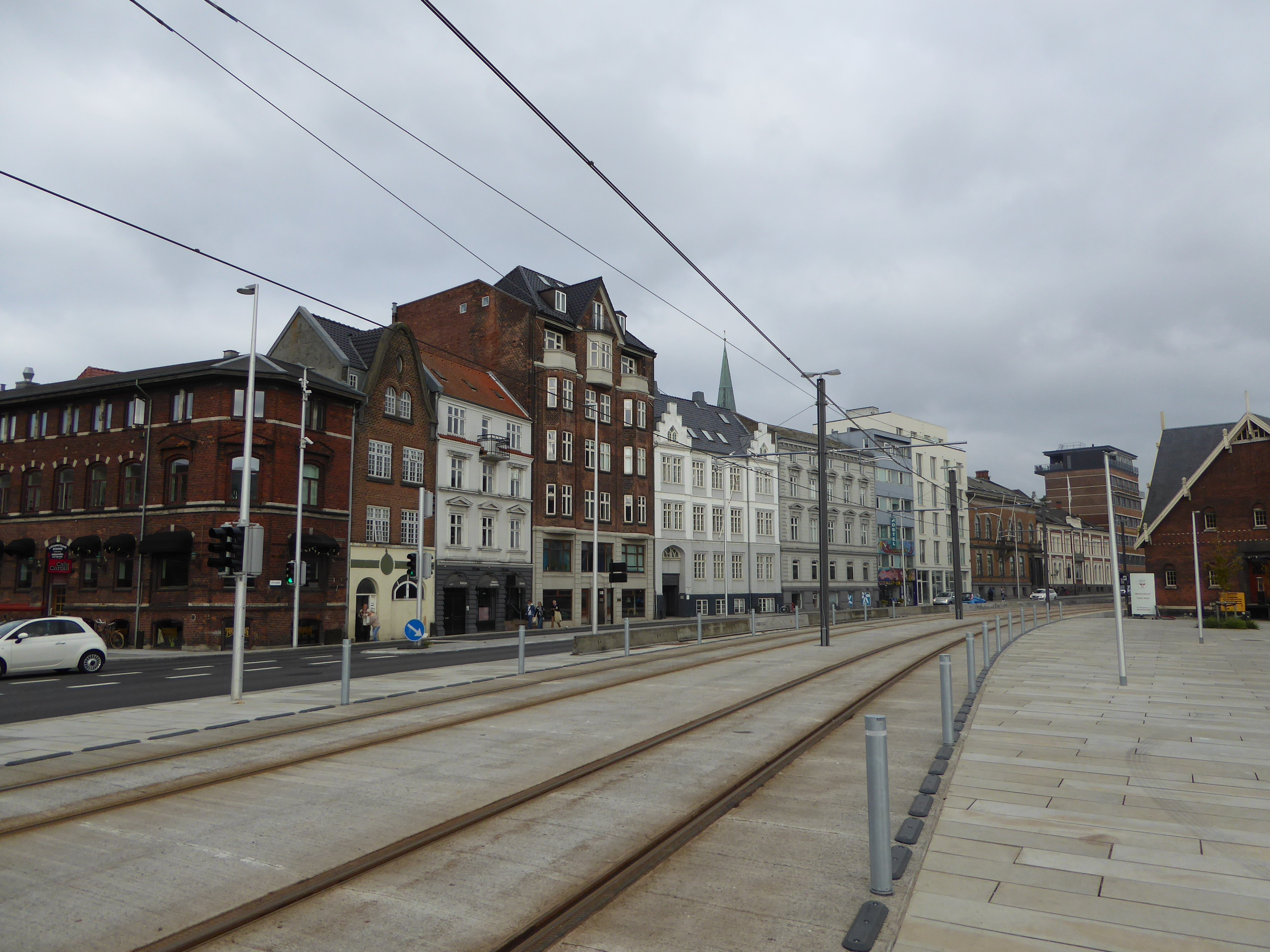 Tram tracks of Aarhus Letbane at Havnegade in Aarhus in Denmark.